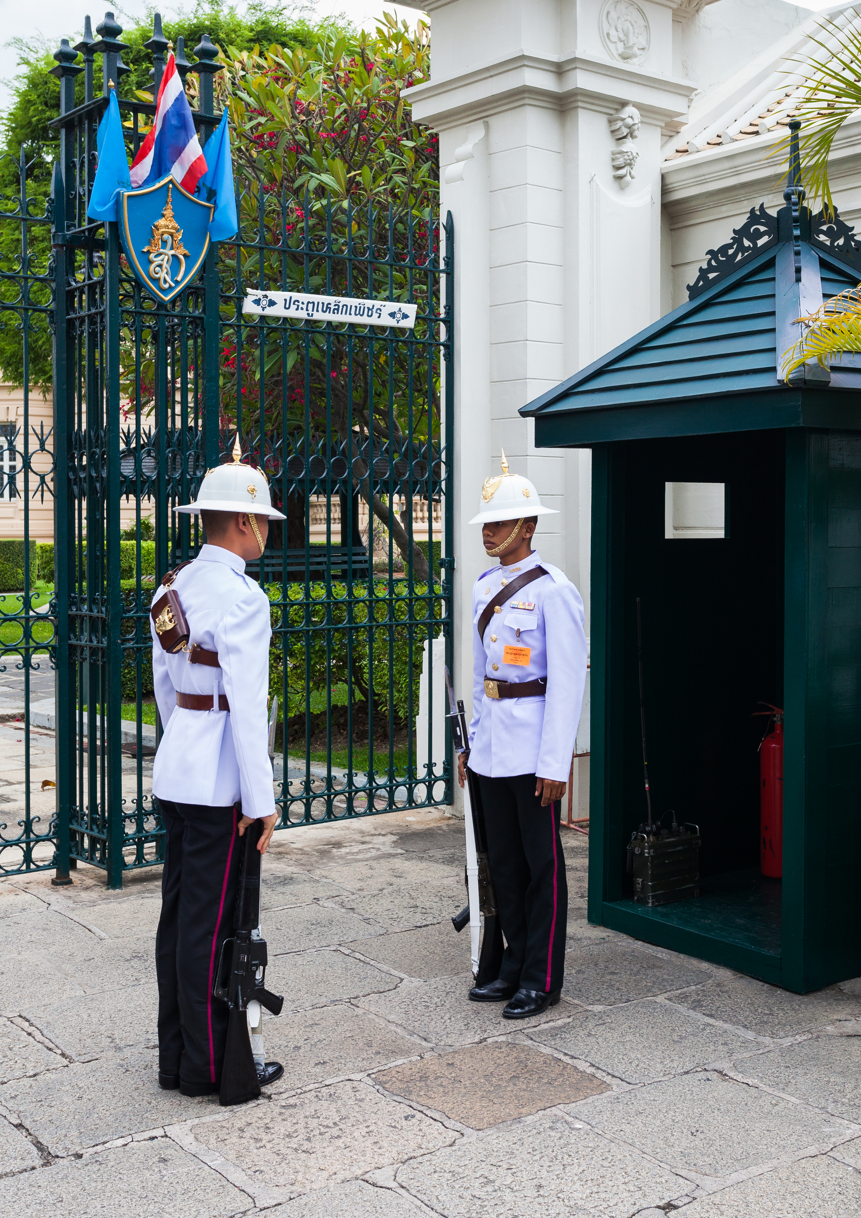 First Infantry Regiment of the Royal Guard, Grand Palace, Bangkok, Thailand